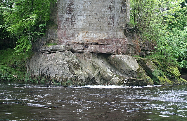 Beneath Gilnockie Bridge The west base of Gilnockie Bridge rests on what looks like an unconformity, with almost horizontal strata resting unconformably on top of dipping strata. However further work on similar features in the vicinity suggests that rather than a true unconformity, this is one of a series of discordance surfaces consistent with synsedimentary channel bank collapse.